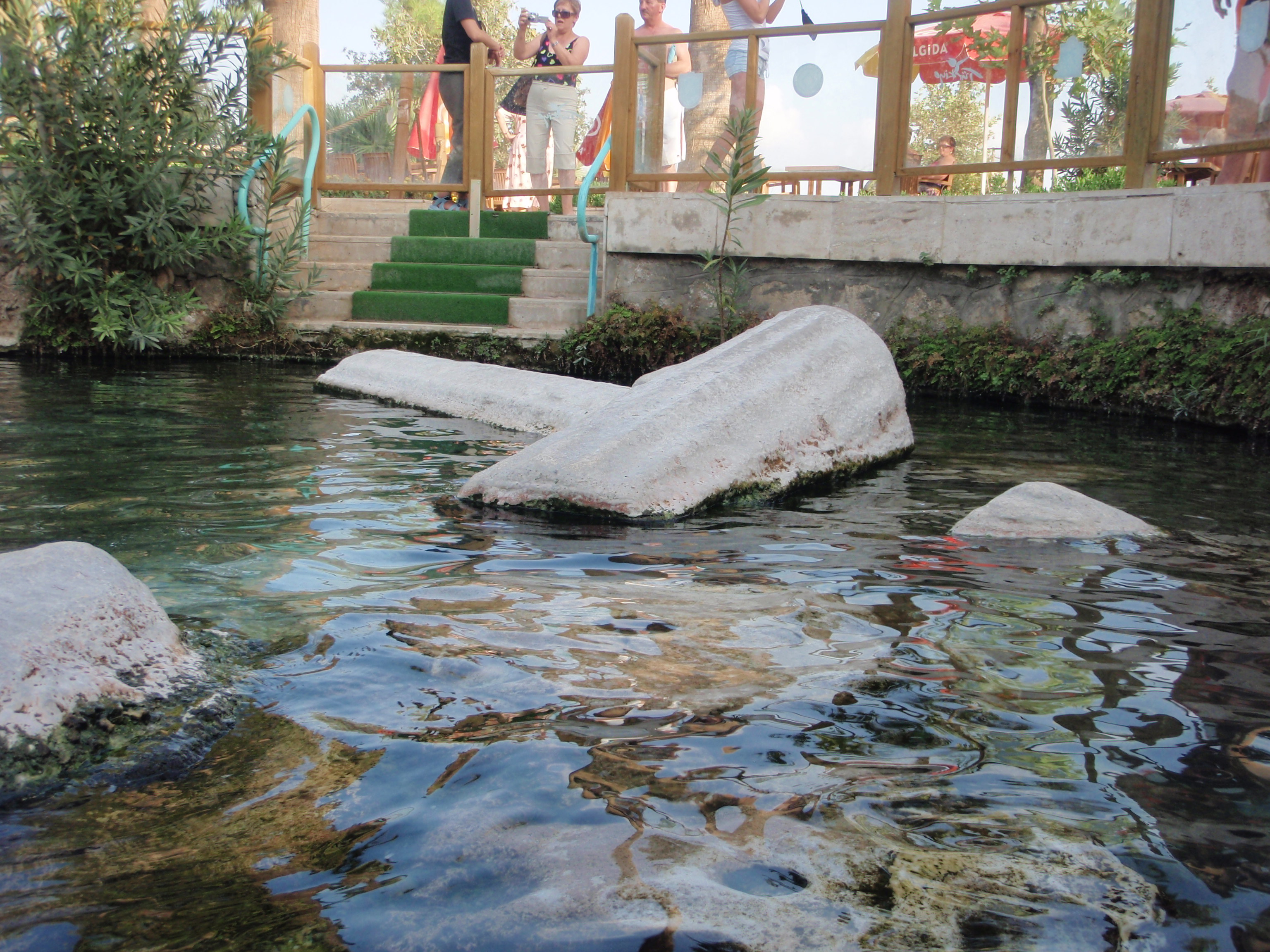 Pamukkale Swimmingpool with columns